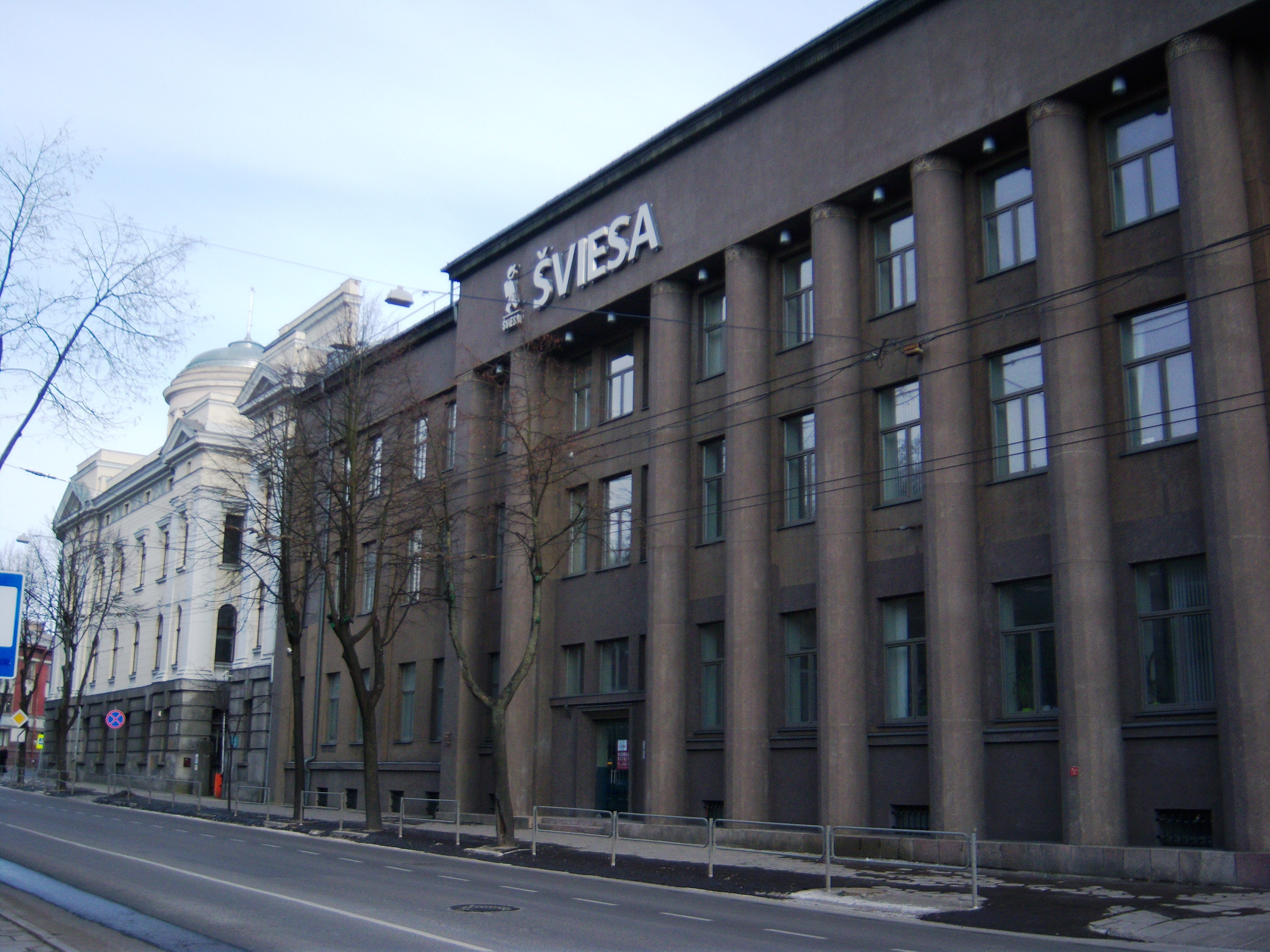 Publishing house „Šviesa“, Ožeškienės str., Kaunas, Lithuania